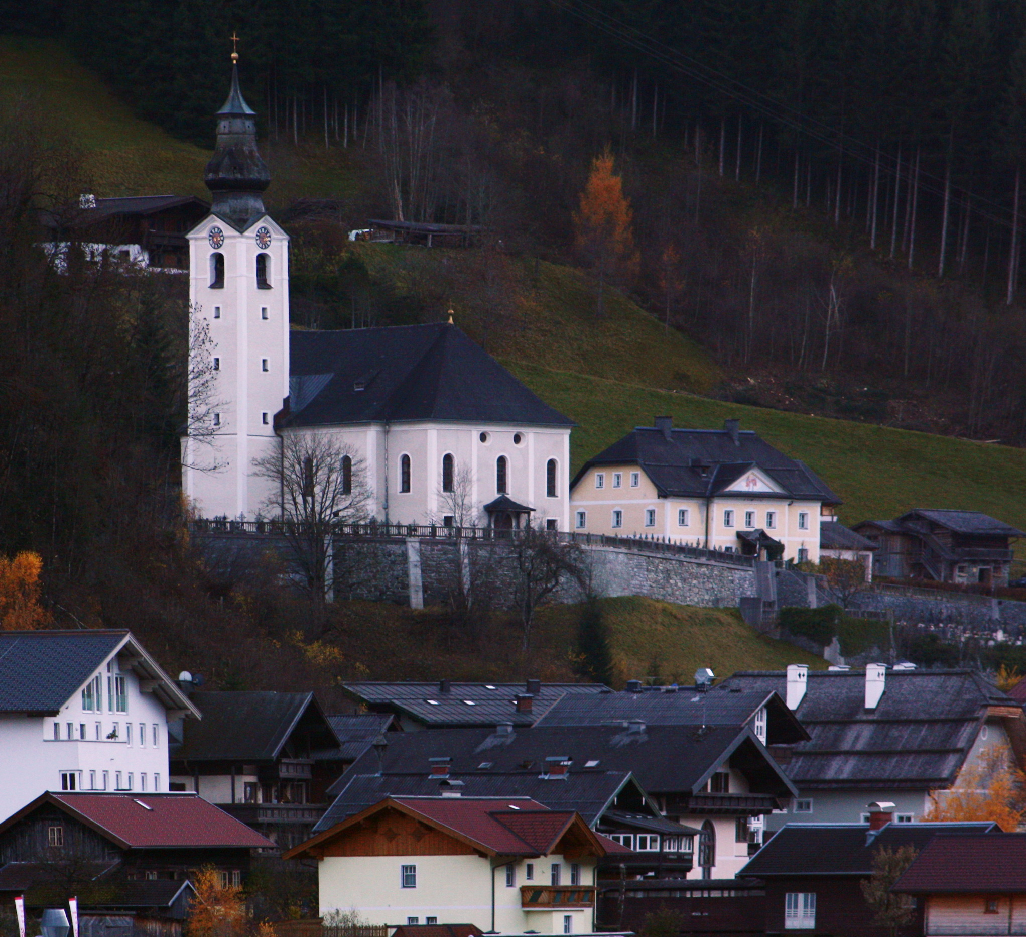 Großarl with the parish church. View towards North-West.